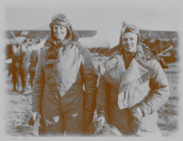 Informal portrait of Lieutenant H. M. (Mike) Moody (left, smoking cigarette) and Captain (later Air Commodore) Raymond James Brownell, No. 45 Squadron, Royal Flying Corps